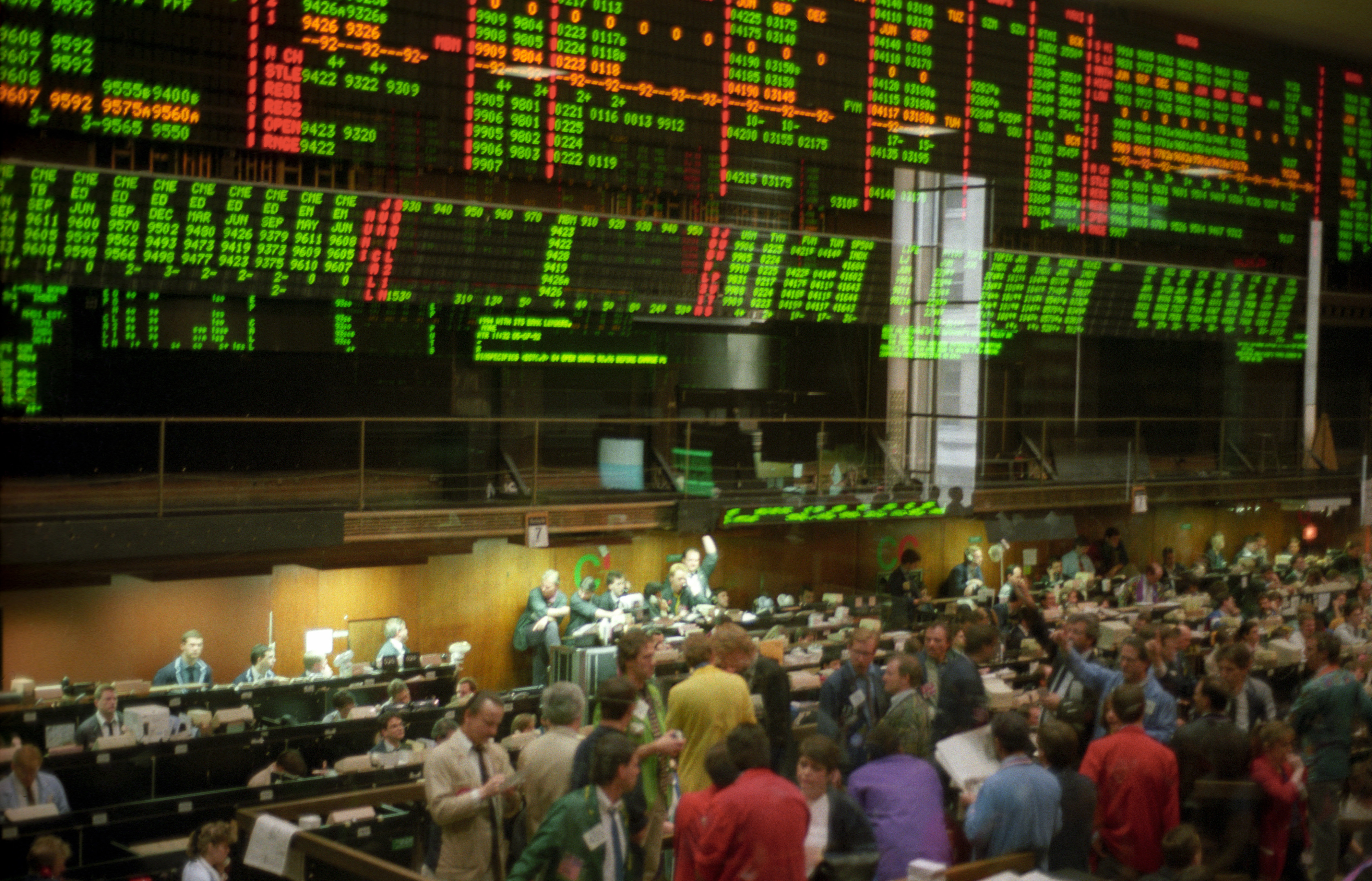 Chicago Board of Trade